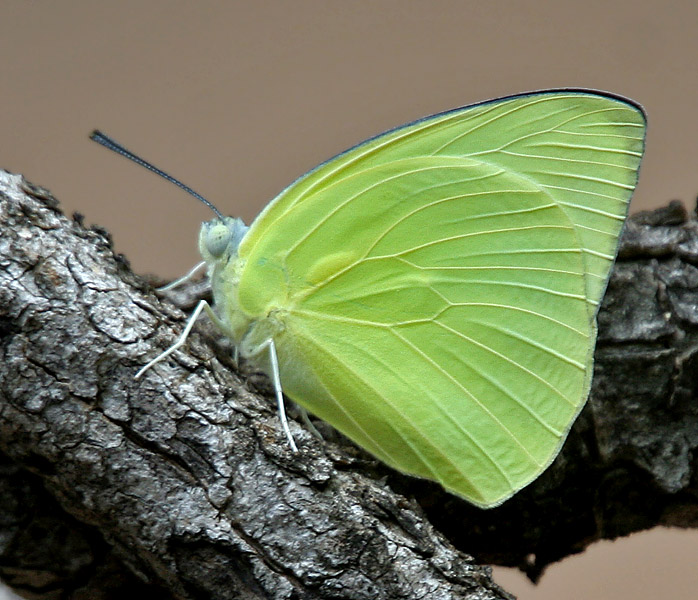 Common Emigrant or Lemon Emigrant Catopsilia pomona in Hyderabad, India.